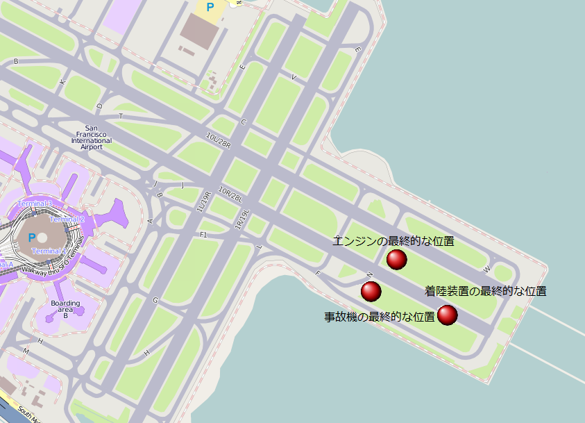 Map showing the location of the crash site of Asiana Airlines Flight 214 (Japanese).